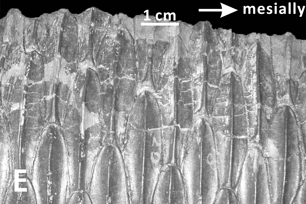 Primary ridges of the tooth crowns in the dentary dental batteries of Edmontosaurus regalis (CMN 2289) (dental batteries in lingual view).